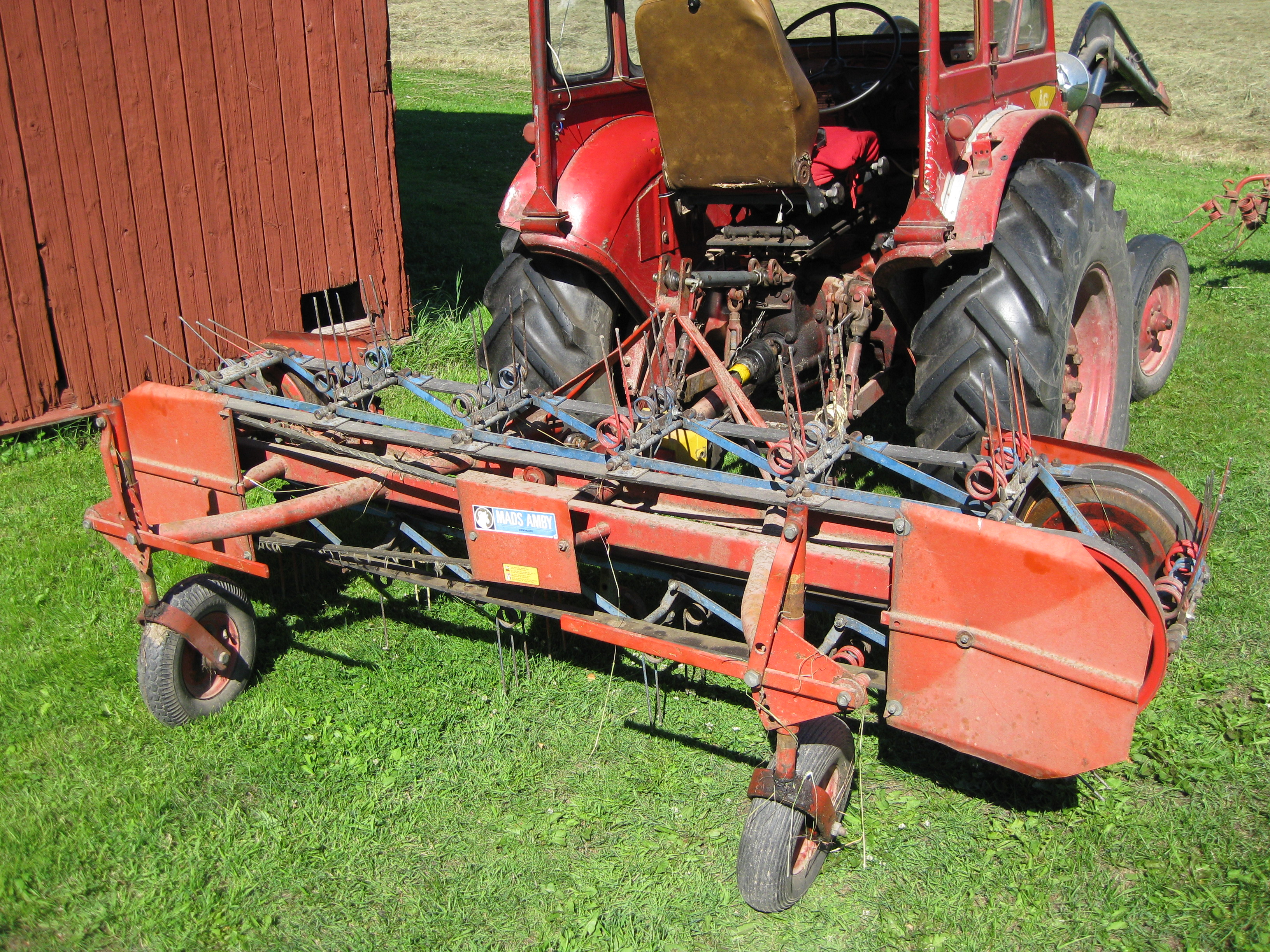 A Bolinder Munktell (BM) 230 Victor with a side delivery belt rake made by Mads Amby. Working width of the rake is approximately 2,5 meters. Swath former is not present.